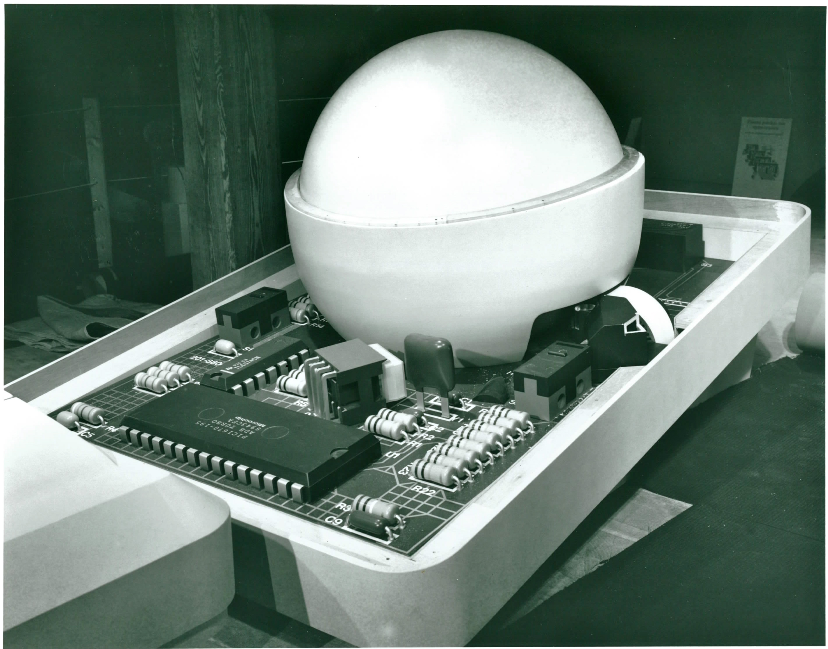 Giant working trackball showing internal circuitry